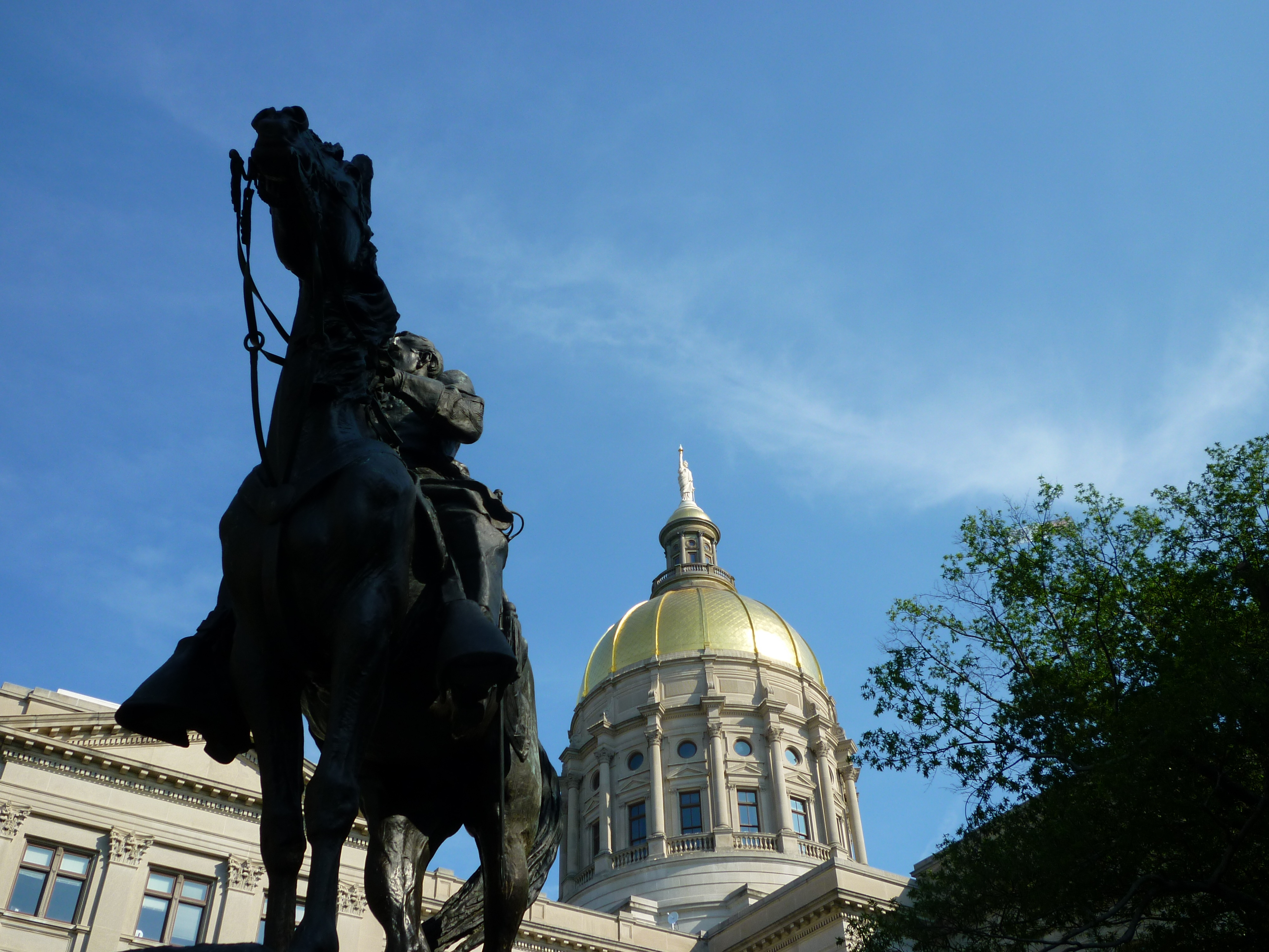 Dome of the Georgia State Capitol with the statue of John Brown Gordon in the foreground in Atlanta.